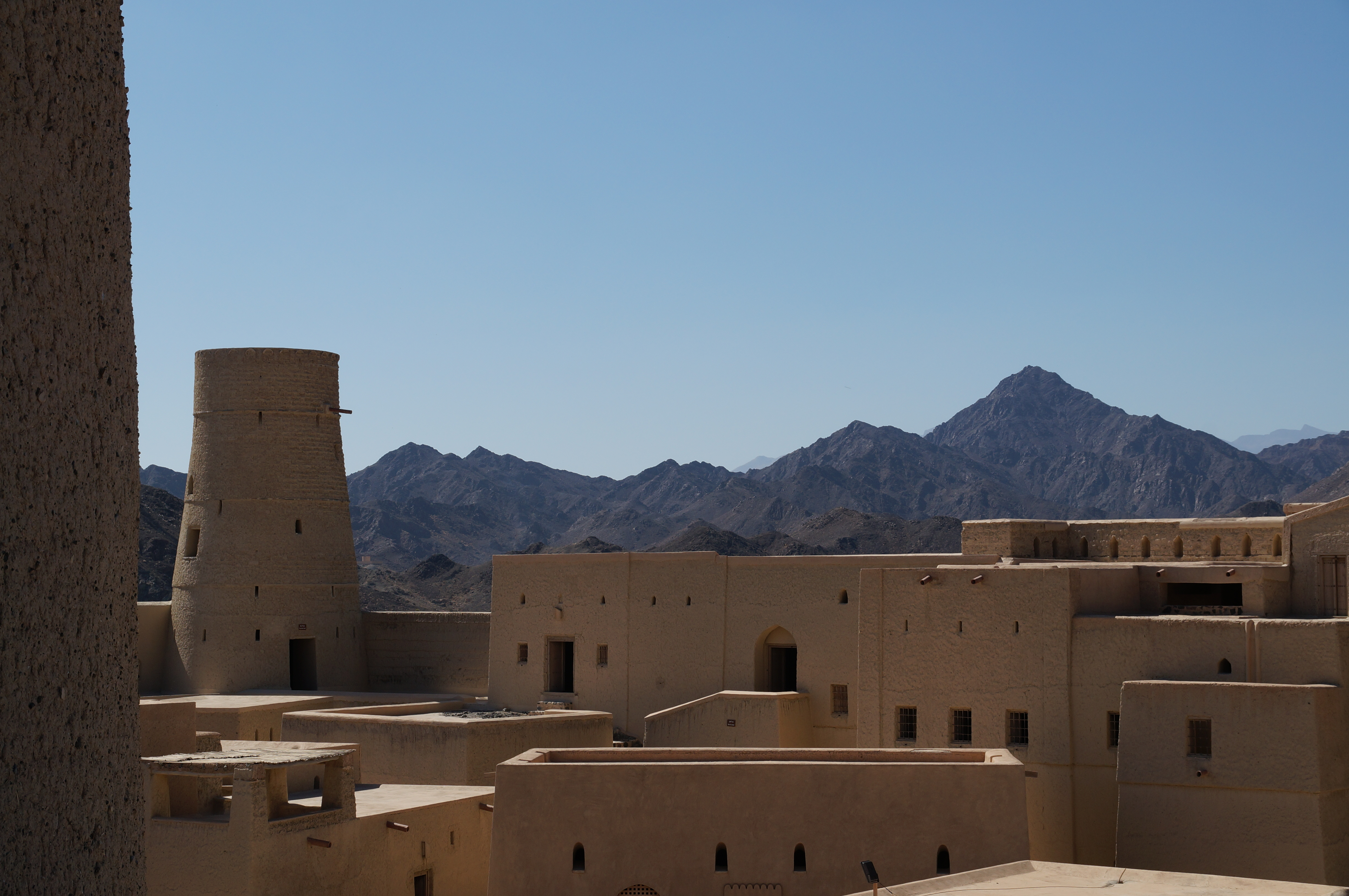 Bahla Fort, Oman